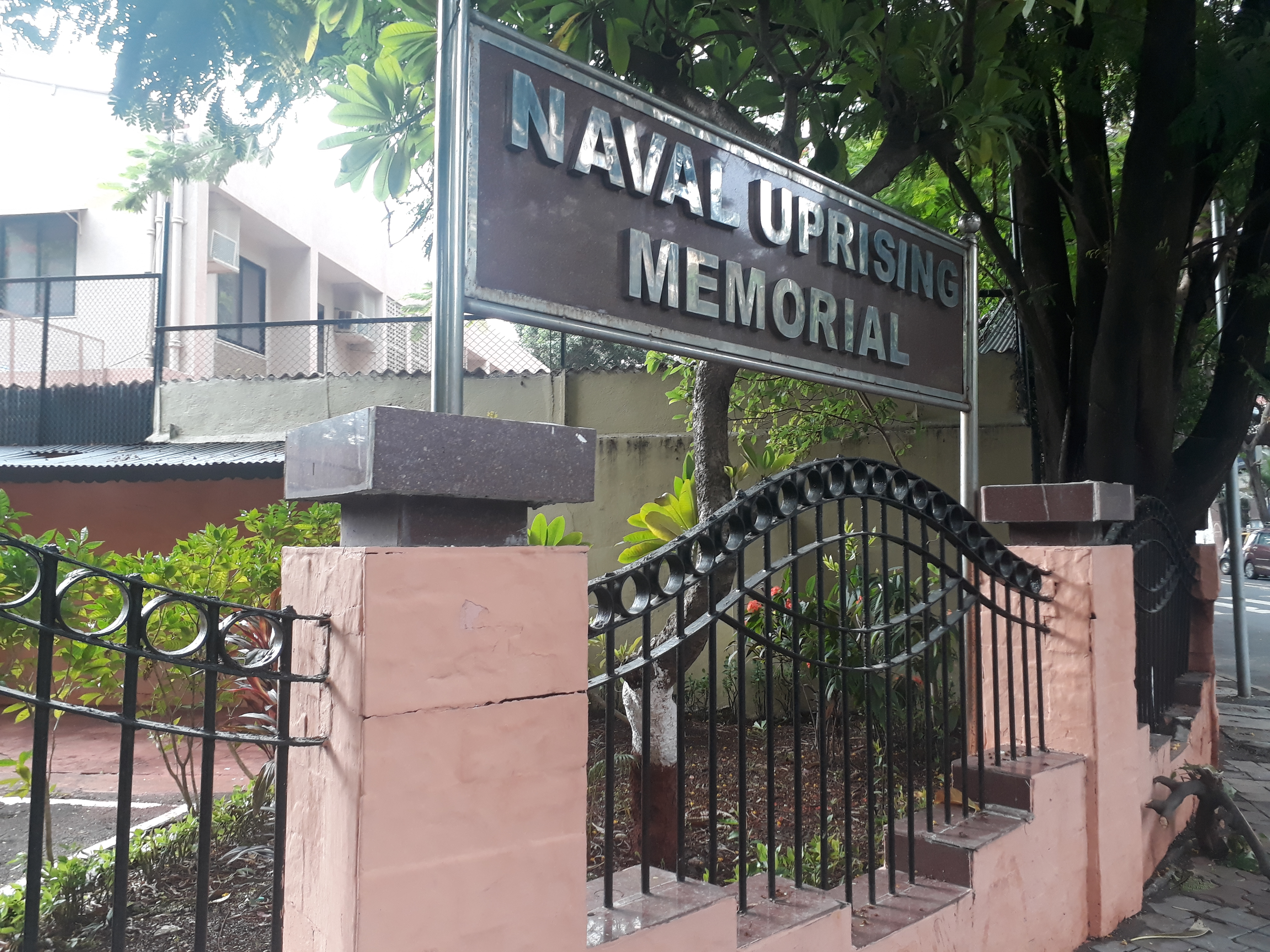 Indian Royal Navy revolt memorial in Mumbai, Colaba